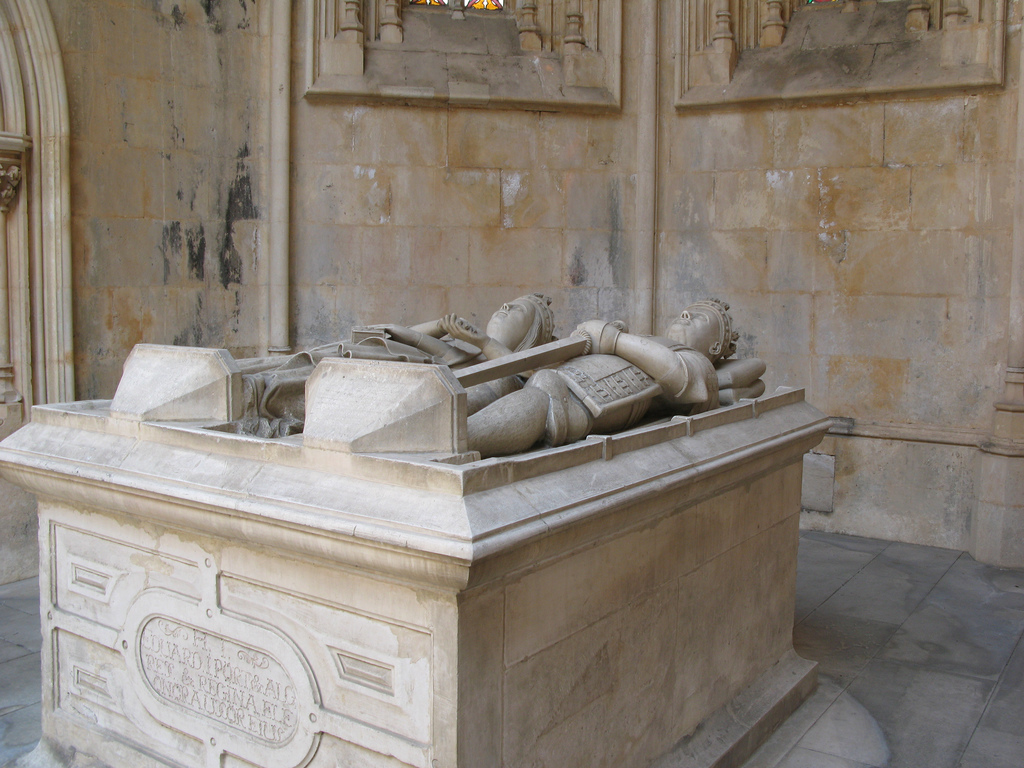 Batalha Monastery, tomb of King Duarte and Queen Leonor